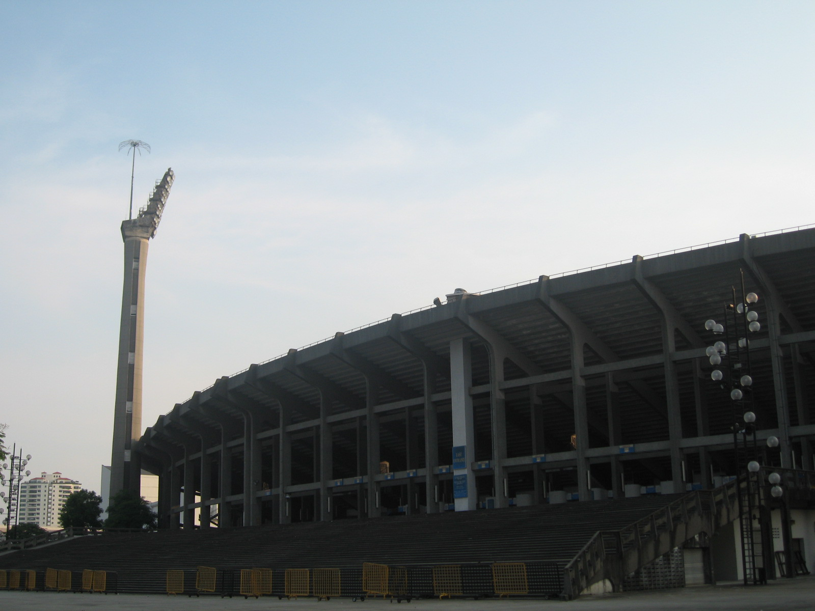 National Stadium, Singapore.